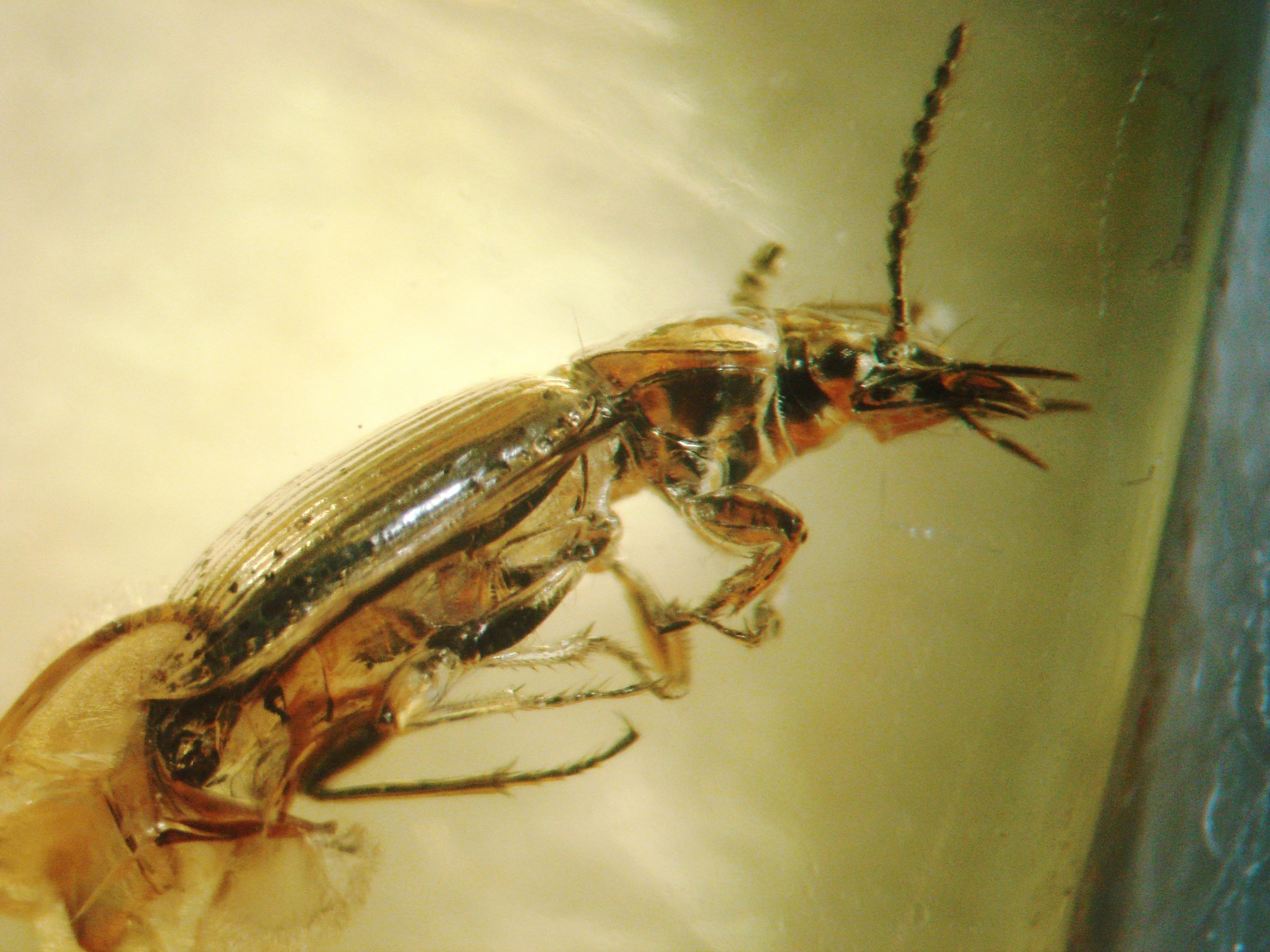 Baltic amber inclusions - 50 million years old - Coleoptera, Carabidae, ...?